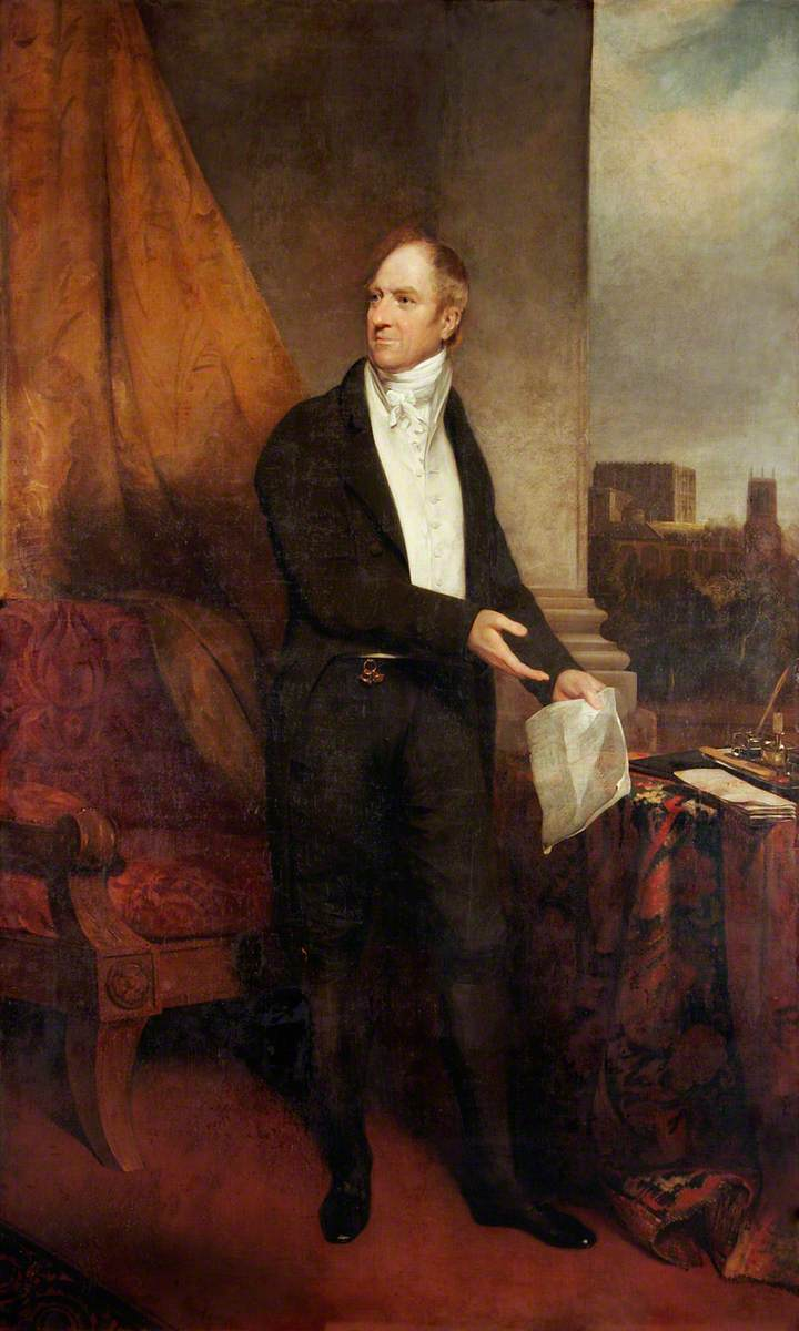 Portrait of William Smith (1756–1835), British politician.